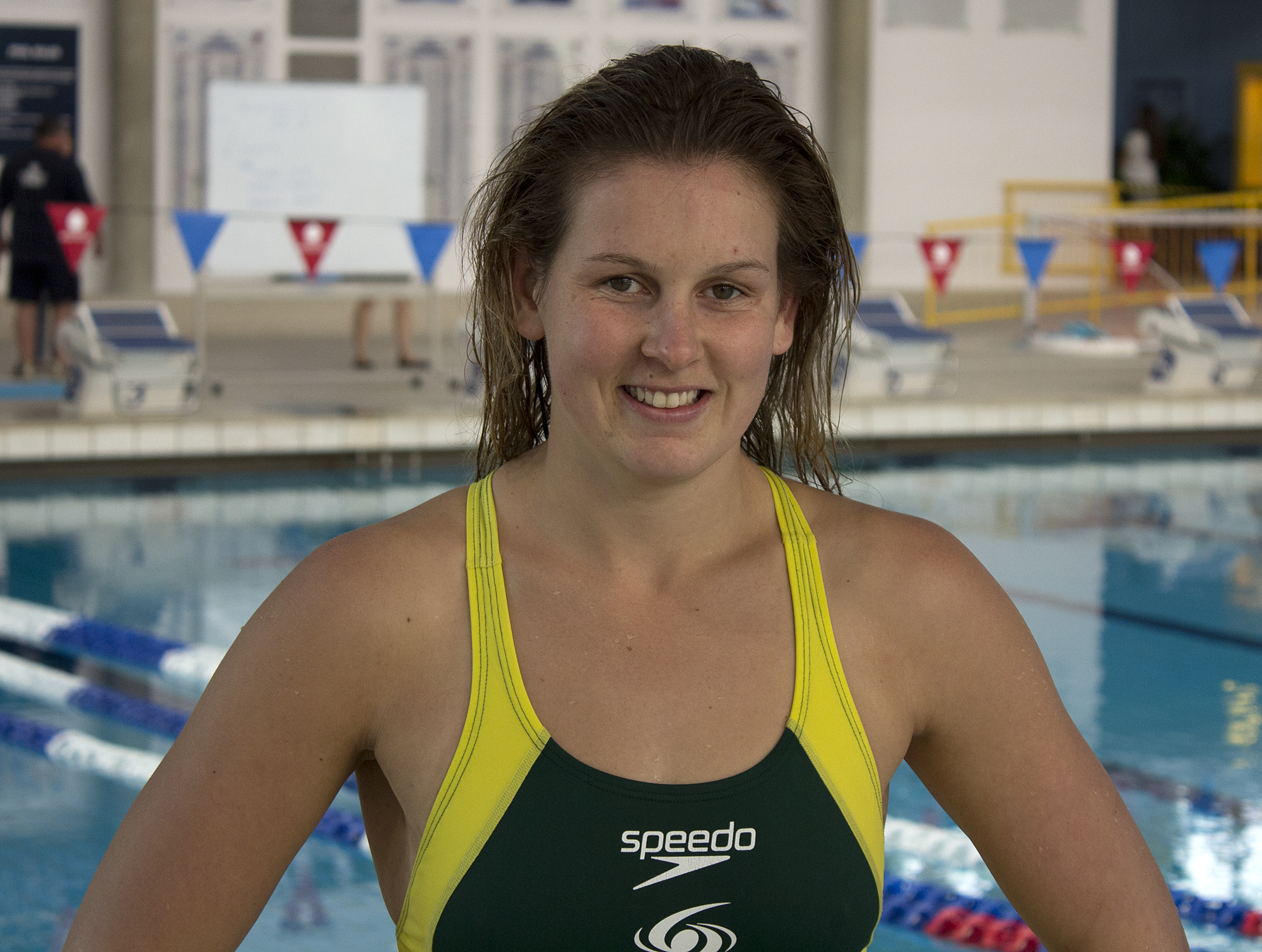 Teigan Van Roosmalen Australian S13 paralympic swimmer.